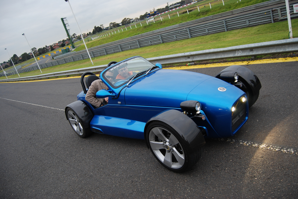 Tom Reynolds